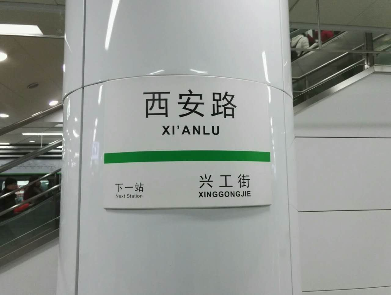 XIANLU Station of Dalian Metro Line 1 & 2.